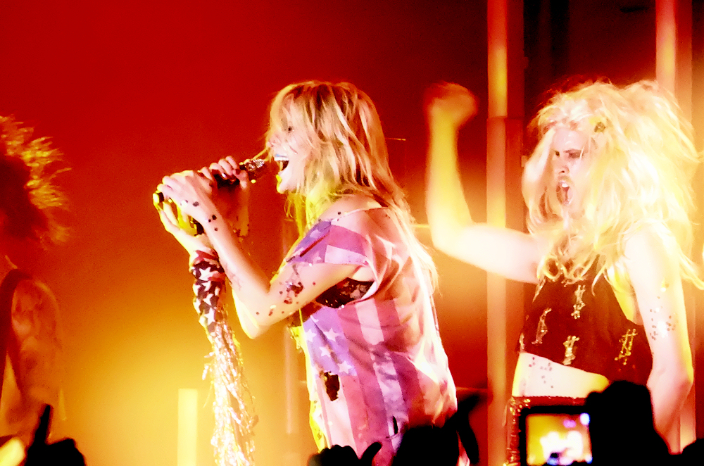 Kesha performing at Kool Haus in Toronto, Ontario.